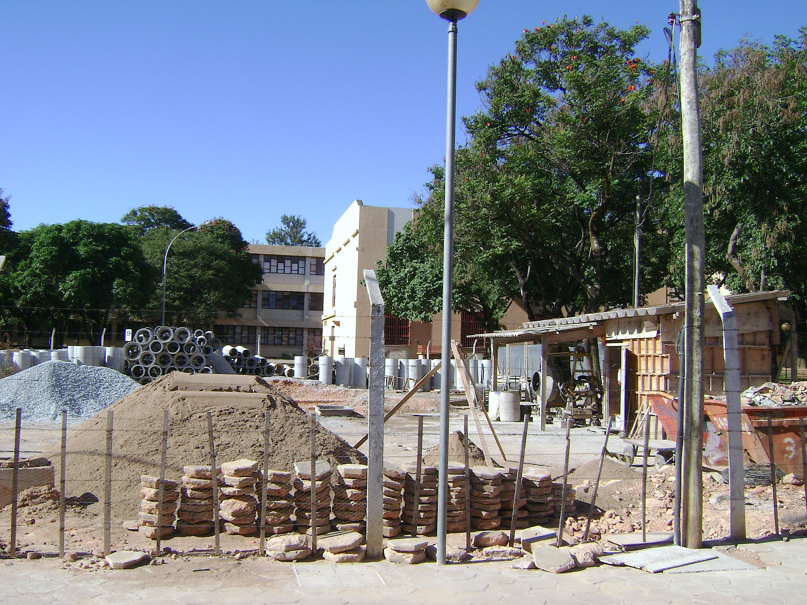 Colégio Técnico in reforms, at Universidade Federal de Minas Gerais, Belo Horizonte, Brazil.